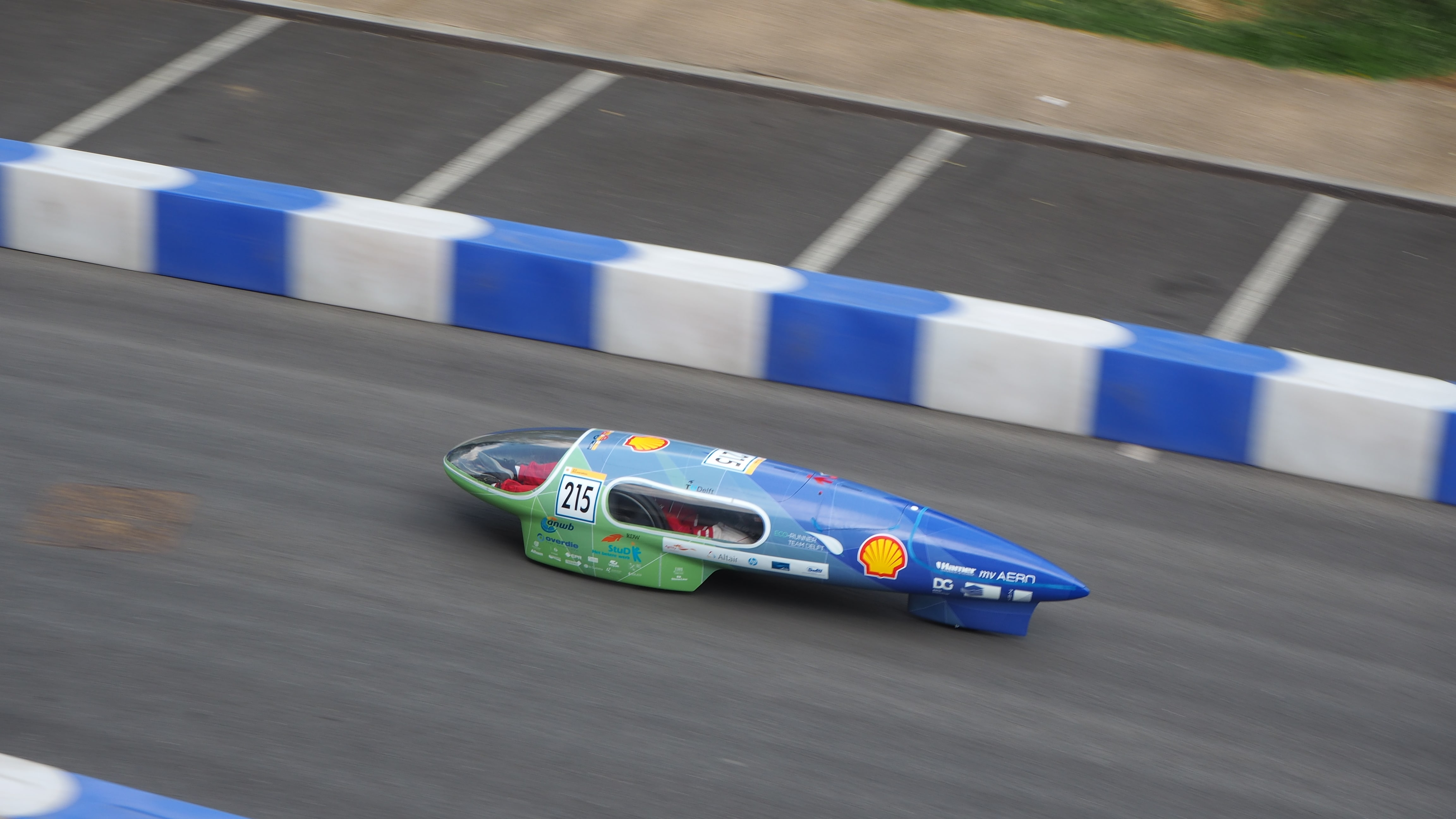 Eco-Runner 8 racing